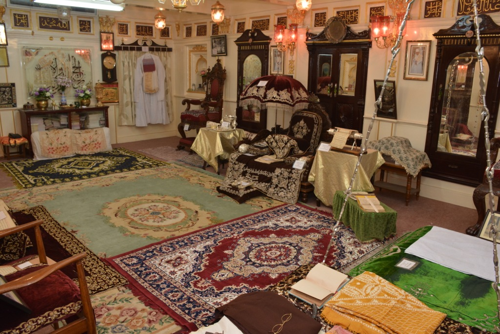 This is the residence of His Holiness Saiyedna Haatim Zakiyuddin Saheb TUS - the 45th Spiritual Leader of Alavi Bohra Community. It is almost 300 yrs old. This is the Room of Paradise where all Religious Rituals are held.